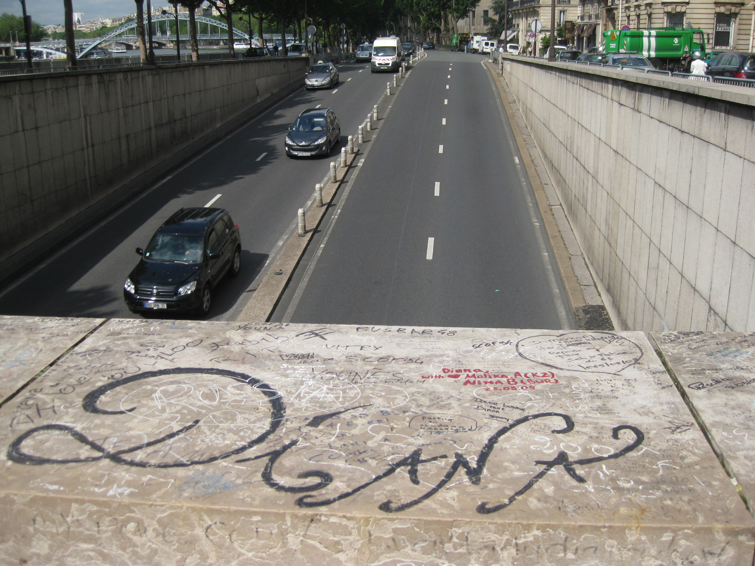 Site near to Lady Diana's fatal road accident, Paris, France.